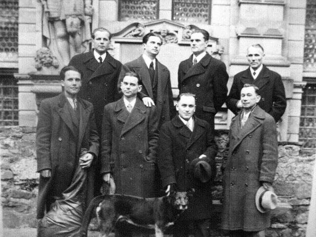 Ukrainian Bandurist Chorus in Third Reich. Heidelberg. August 1943.